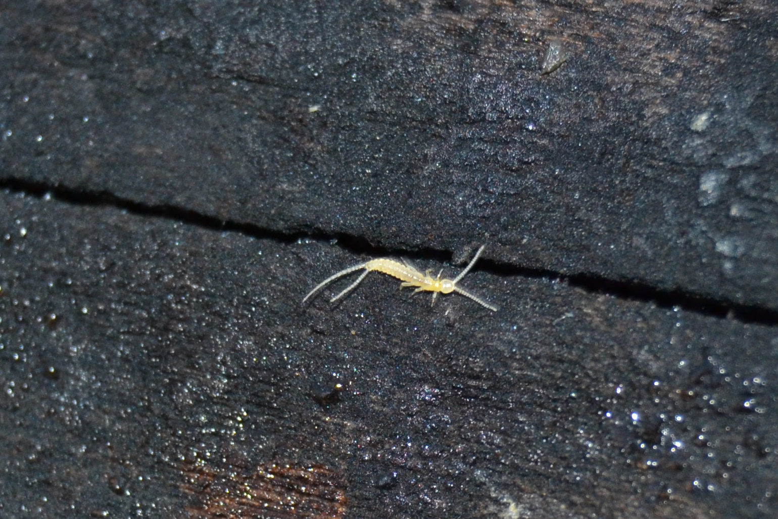 Rentschler Forest Metropark, Fairfield Township, Ohio